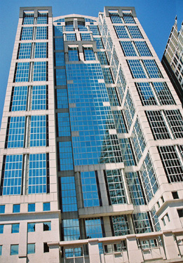 Fifth Third Center in Nashville, Tennessee.